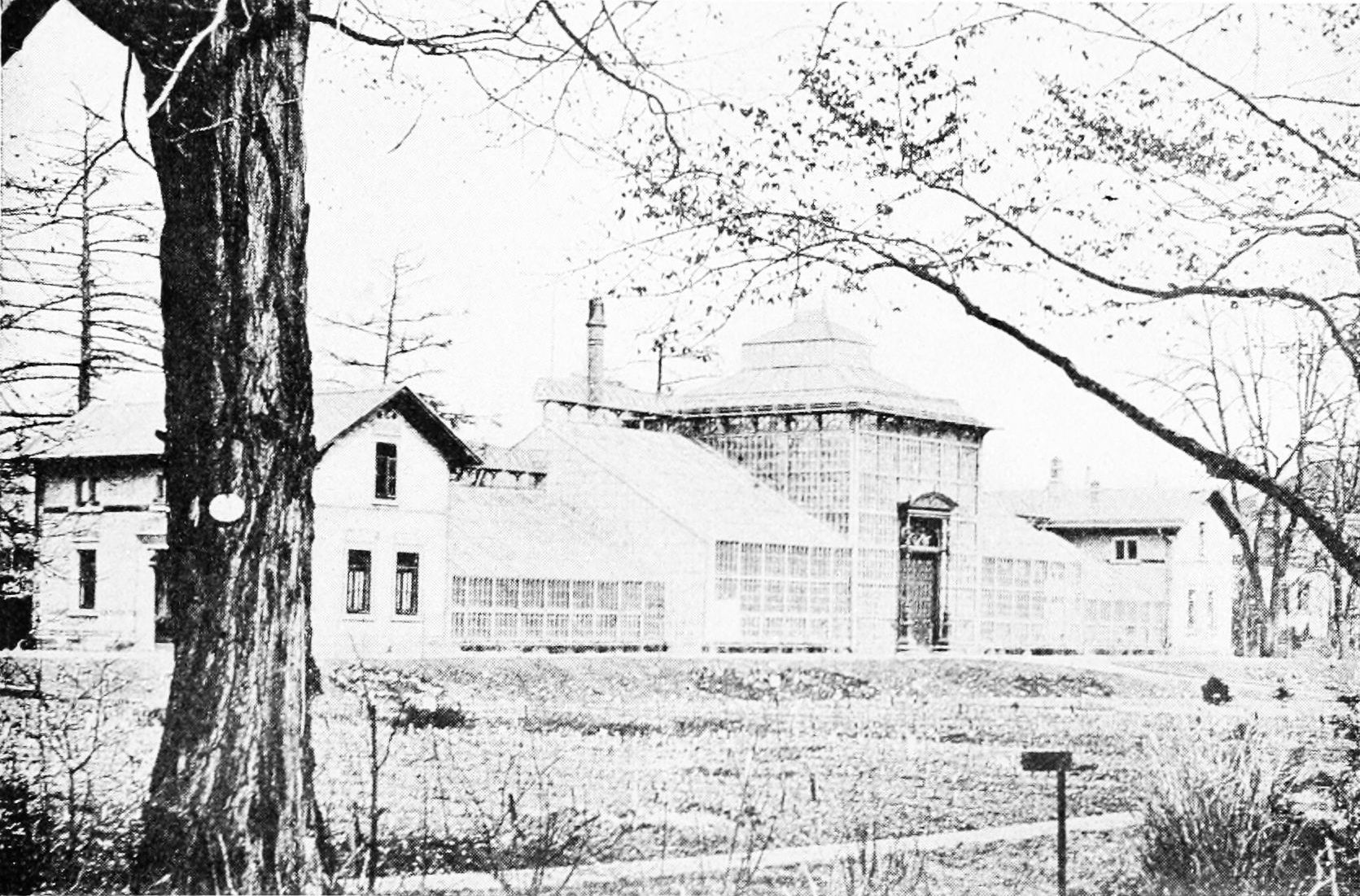 Tubingen botanical gardens herbarium.